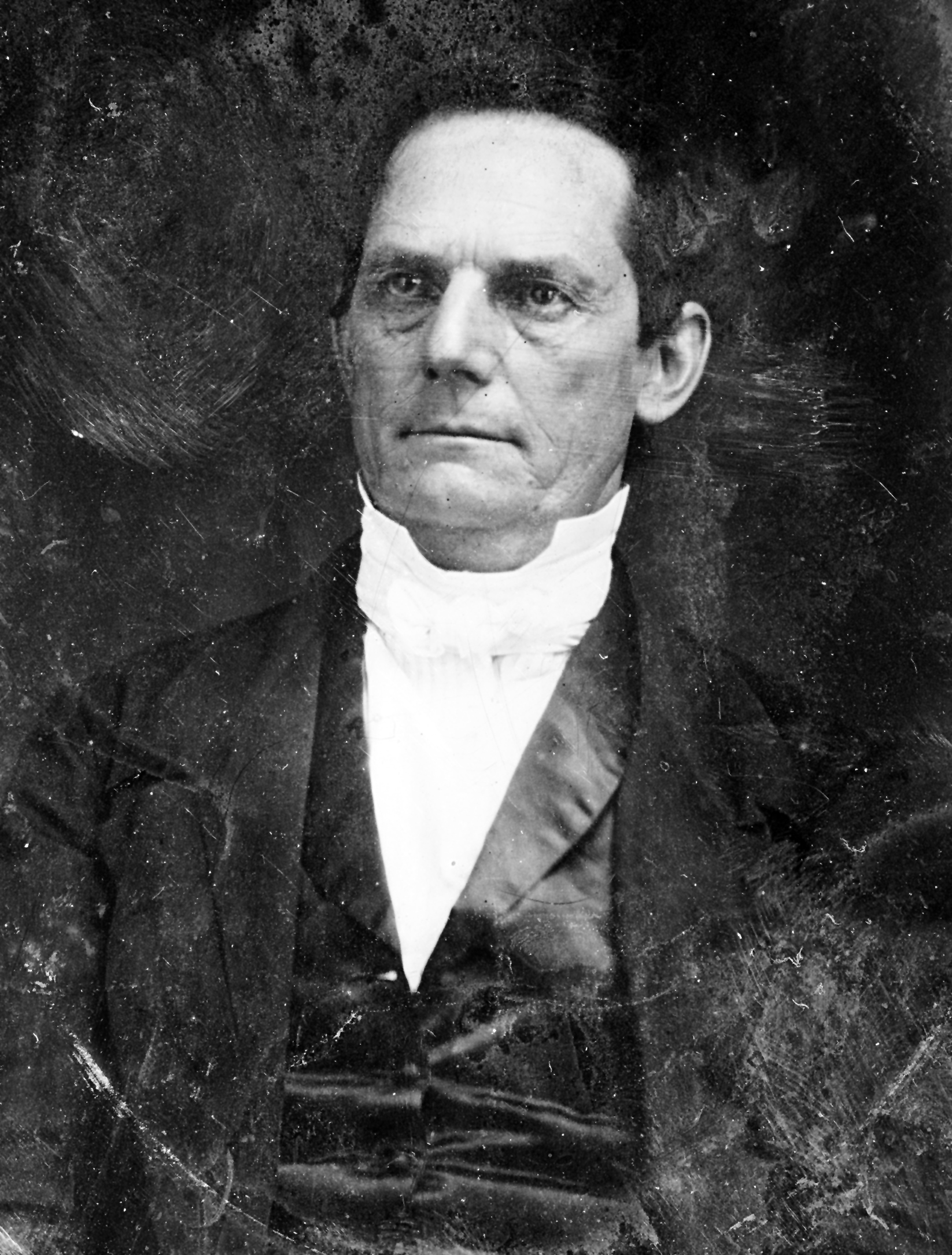 Abraham Watkins Venable, US Representative from North Carolina